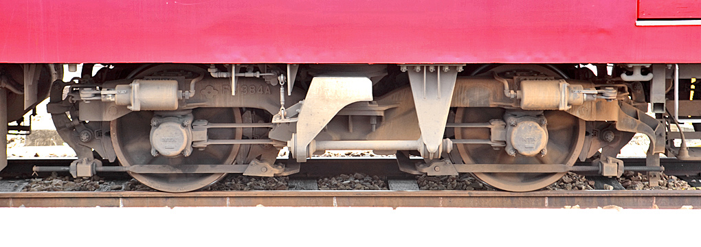 Sumitomo Metal Industries type FS-384A bogie truck of Meitetsu 7700 series ( Mo 7712 )